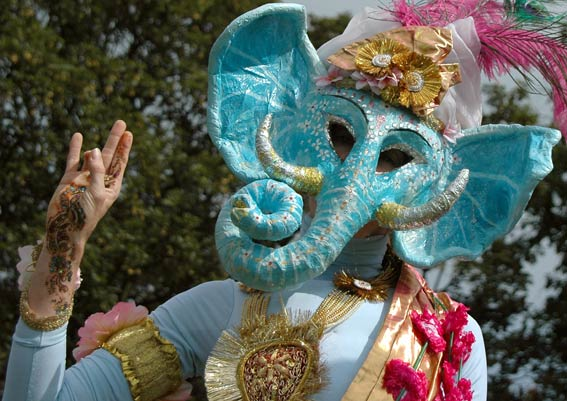 Person posing as Ganesha at London Mela